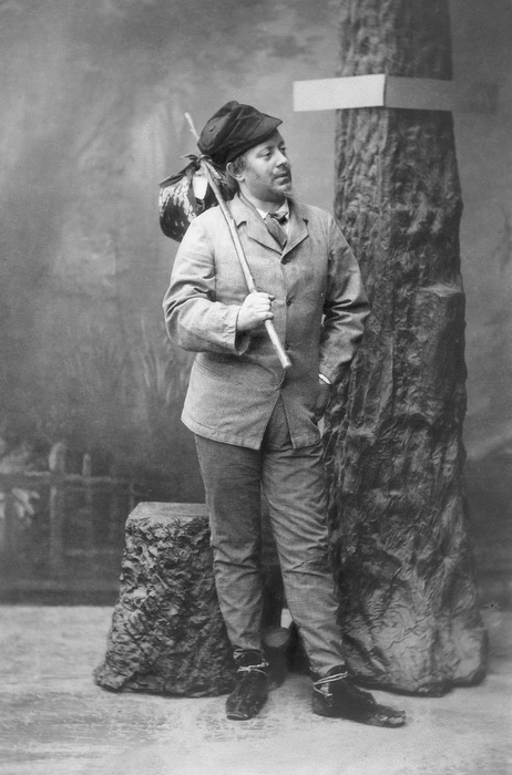 Russian actor Nikolai Yakovlev as Schastlivtsev in Ostrovsky's play Forest (Les; 1898) in Maly theater.